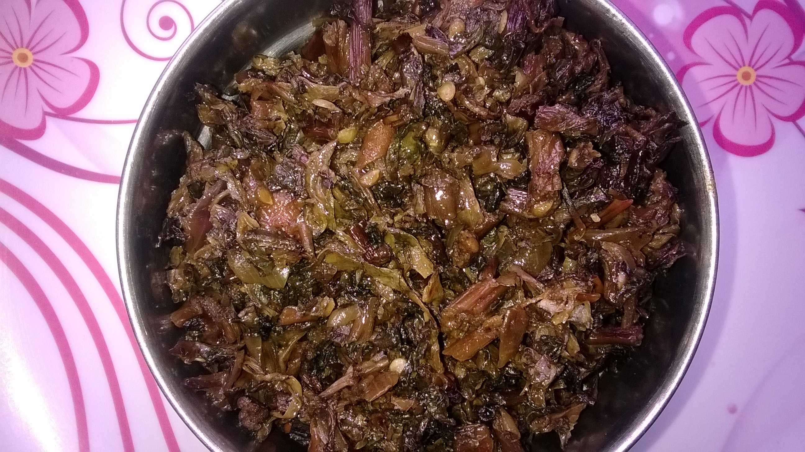 A Nepalese food item.